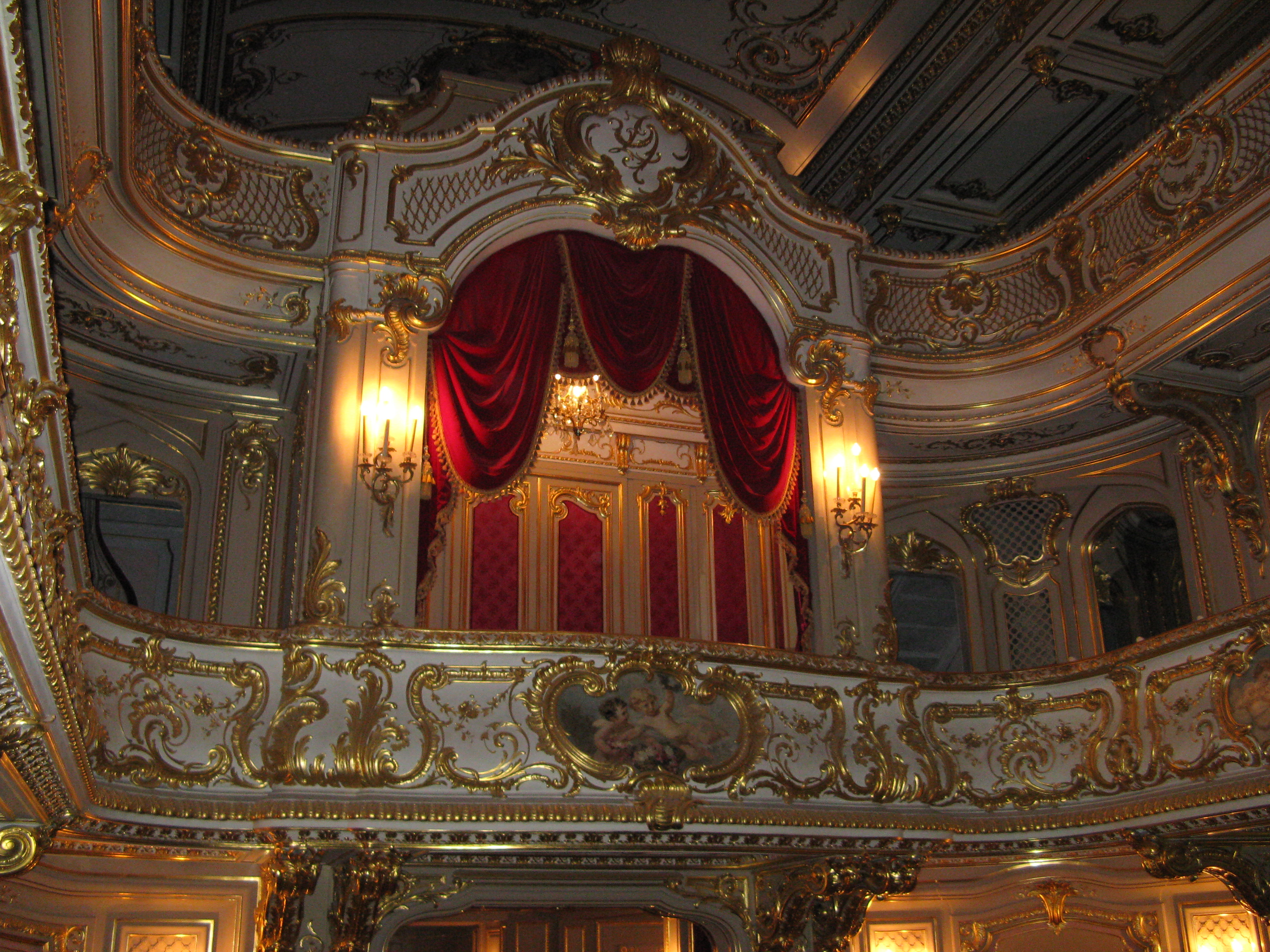 The private Theatre of the Yusupov Palace in Saint Petersburg, Russia.